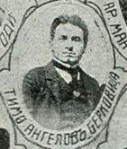 Portrait of IMARO member Timo Angelov from Berkovica